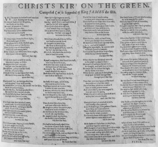 The poem "Christ's Kirk on the Green" in a broadside ballad version printed c. 1701. The attribution to James V of Scotland is no longer believed, and the poem is treated as being anonymous, c. 1500.